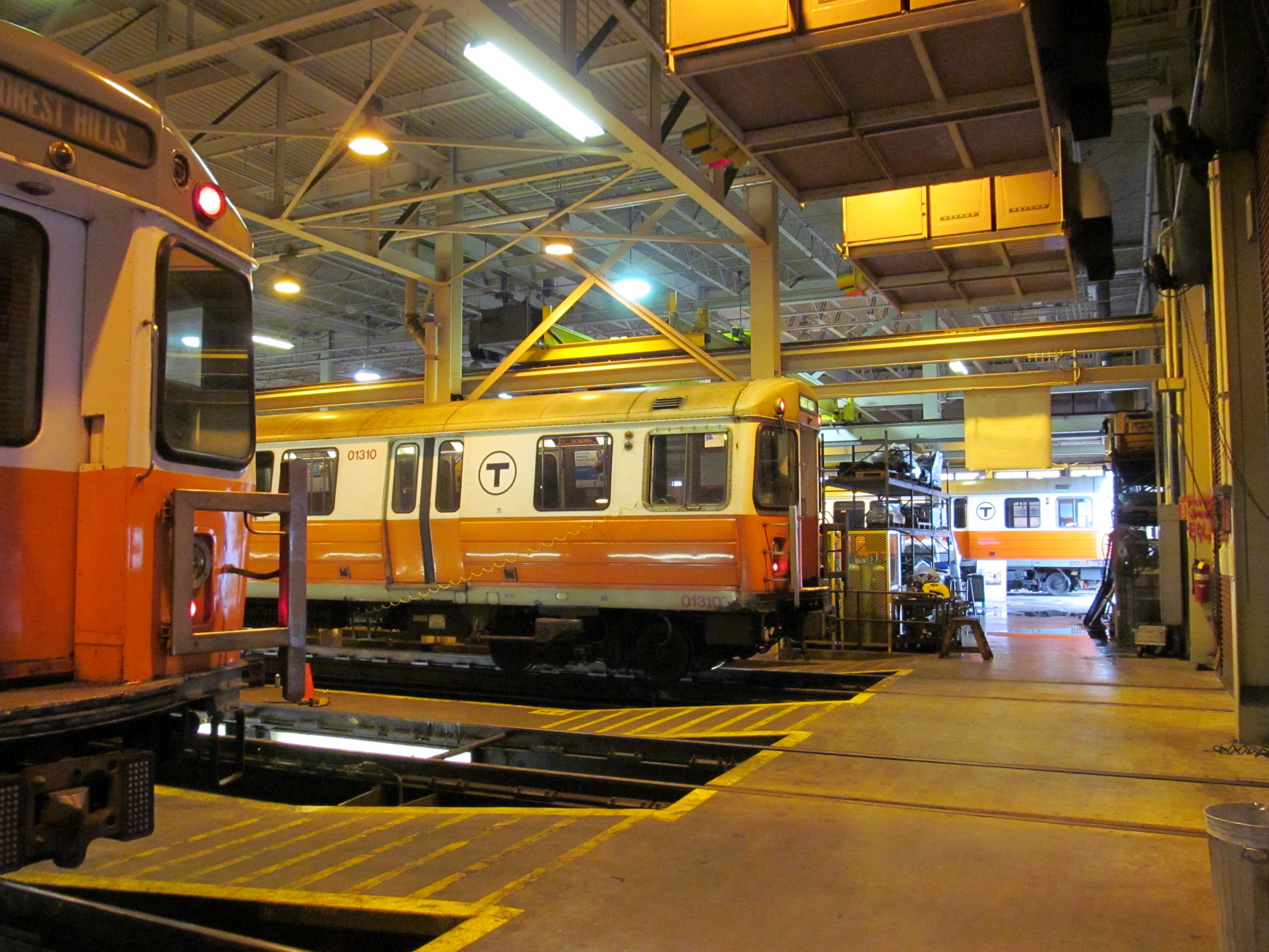 Orange Line trains at the south end of the Wellington Carhouse in October 2014. Photo taken with permission during a guided tour of the facility.